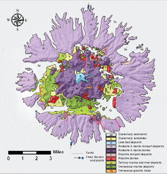 Marysville Buttes Gas Field GeologicMap